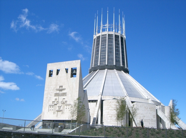 Metropolitan Cathedral of Christ the King in Liverpool